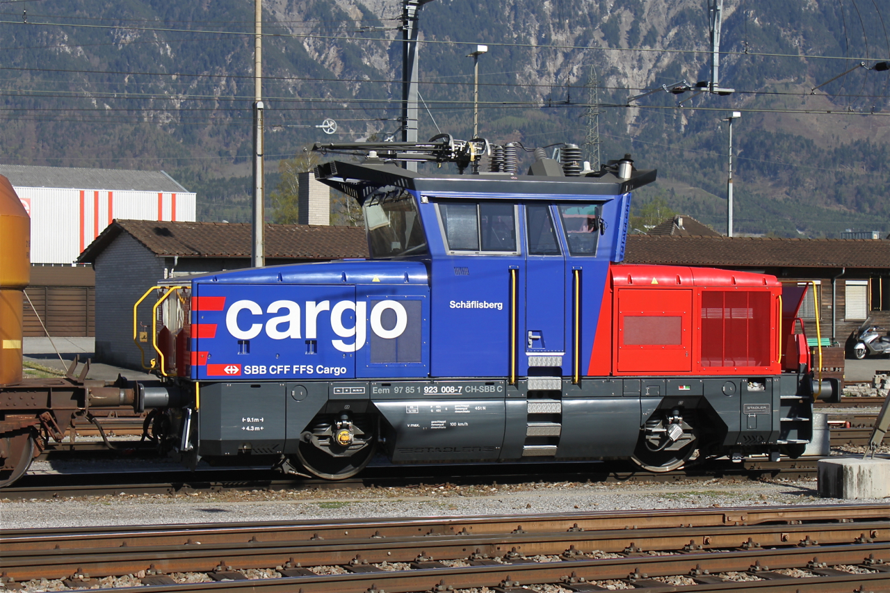 Shunting locomotive Eem 923 008-7 (SBB CFF FFS) at Buchs SG (Switzerland).